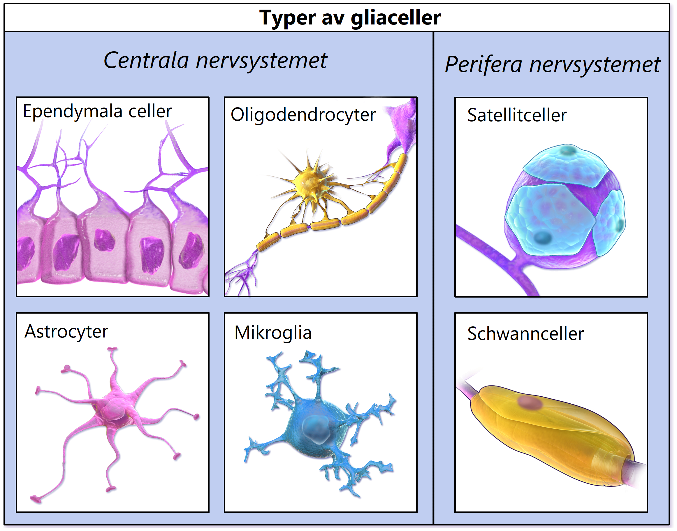 Types of Neuroglia. See a related animation of this medical topic